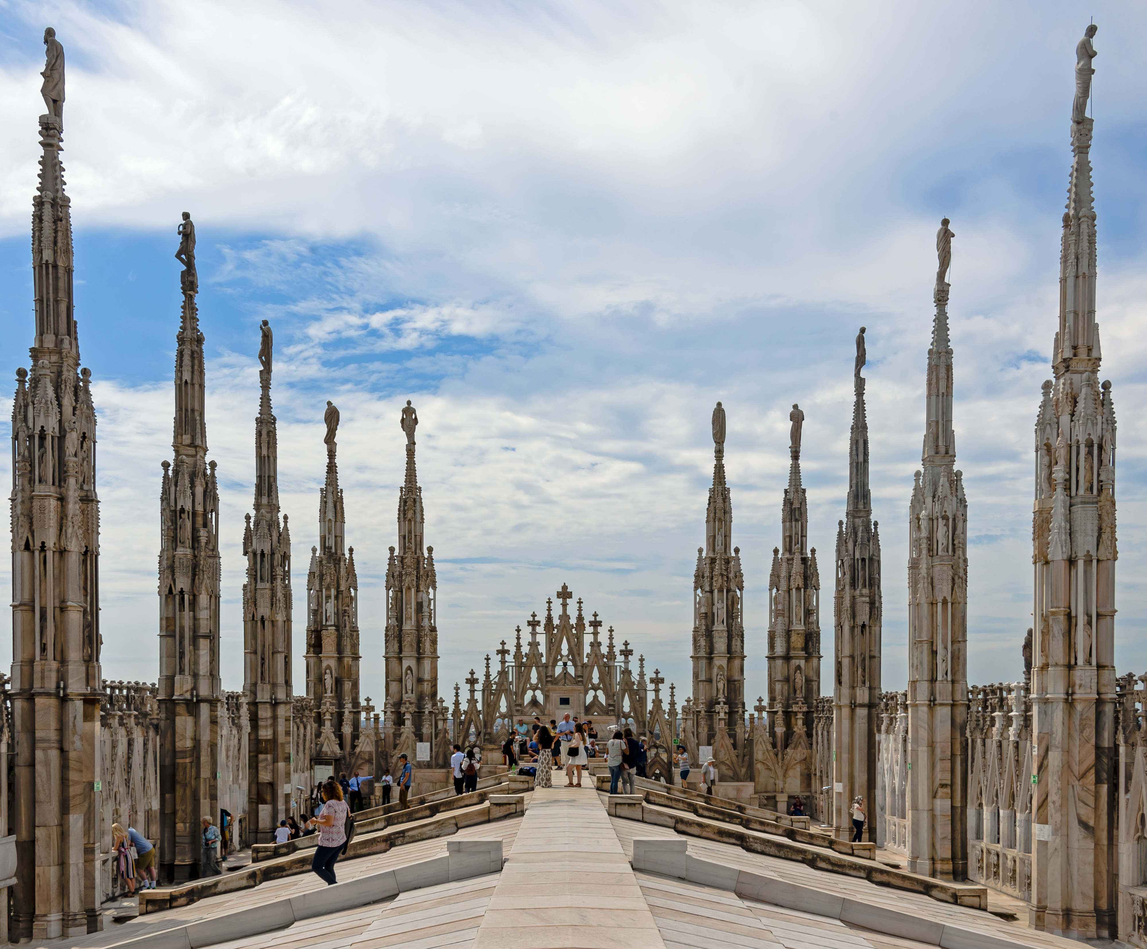 Looking west along the roof of the Duomo, Milan